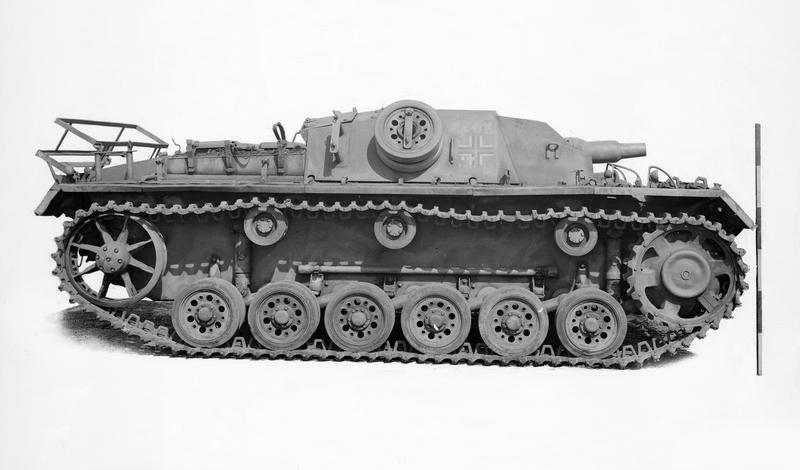 StuG III Ausf C/D (© IWM (STT 4459)